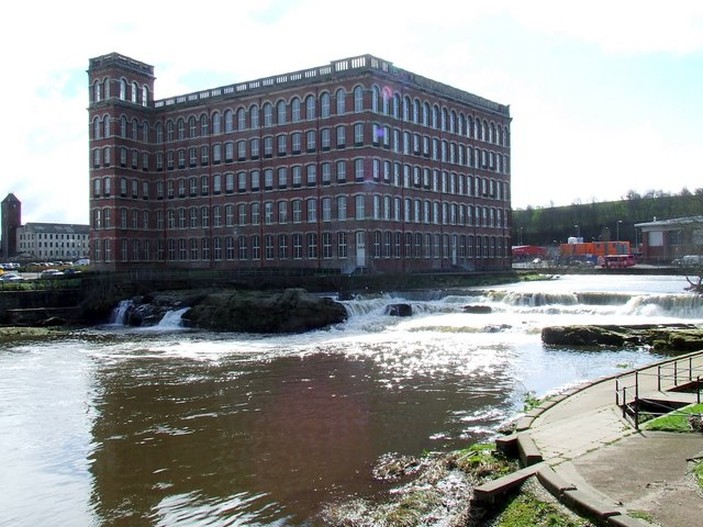 Domestic Finishing Mill Part of the Anchor Mills complex by the River Cart.